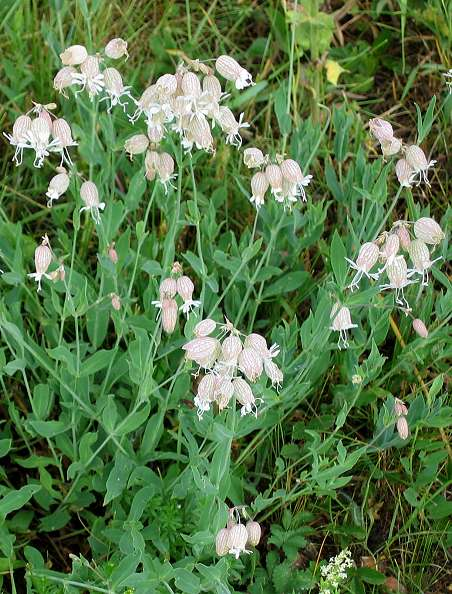 Silene vulgaris